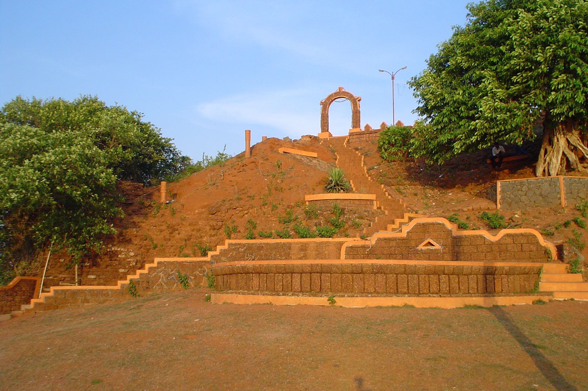 Overbury's folly. Picture by Atul/Shijaz